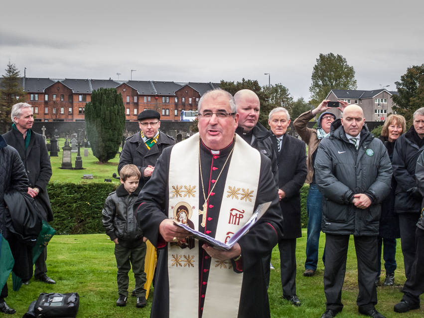 The Catholic Archbishop of Glasgow, Philip Tartaglia gives the blessing on the commemoration of the founding fathers of Celtic Football Club on the St Peter's Cemetery, Dalbeth in Glasgow 2 November 2013